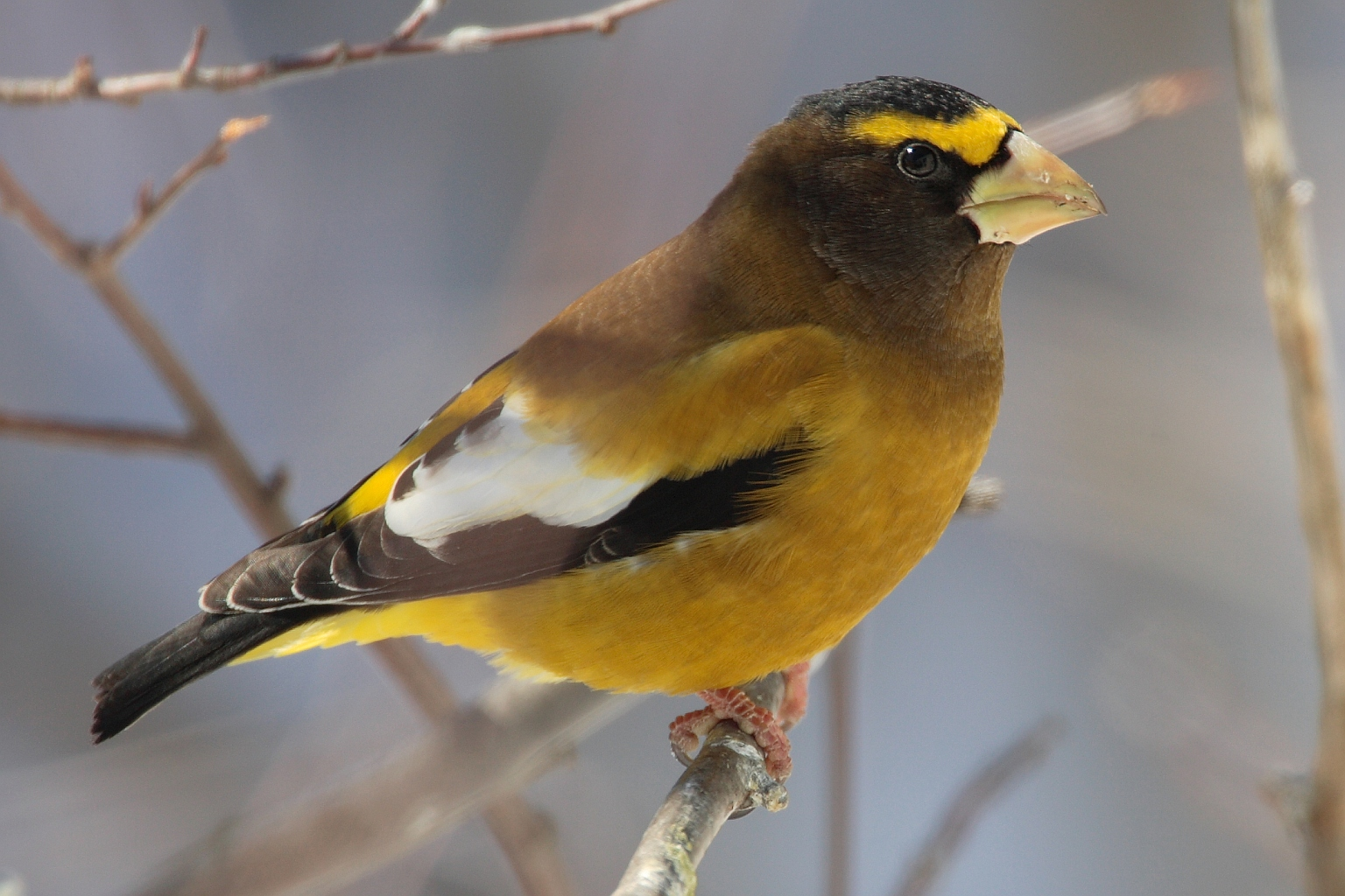 Evening Grosbeak. Visitor Centre, Algonquin Provincial Park, Ontario, Canada.